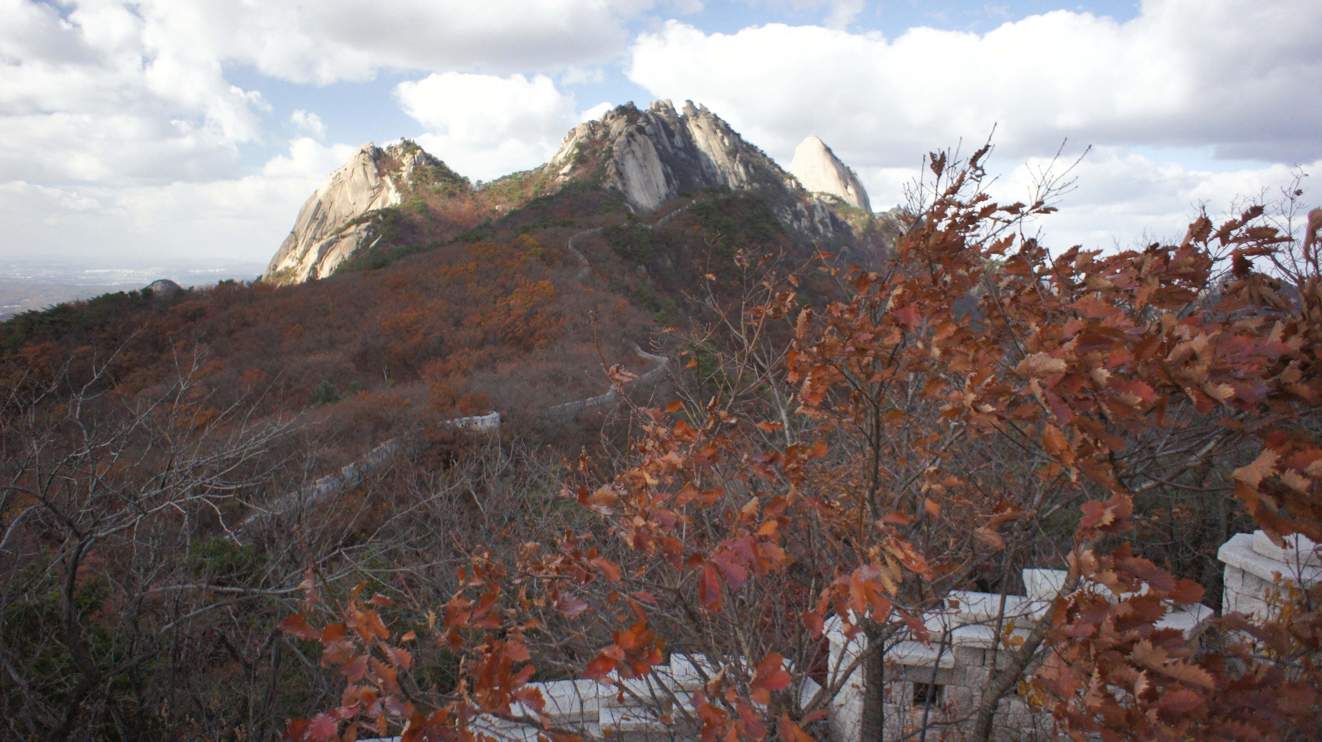 Bukhansan in Korea during the fall. Part of the fortress wall is also visible. Taken from an observation point on the fortress wall between the Great East Gate and the peaks themselves.